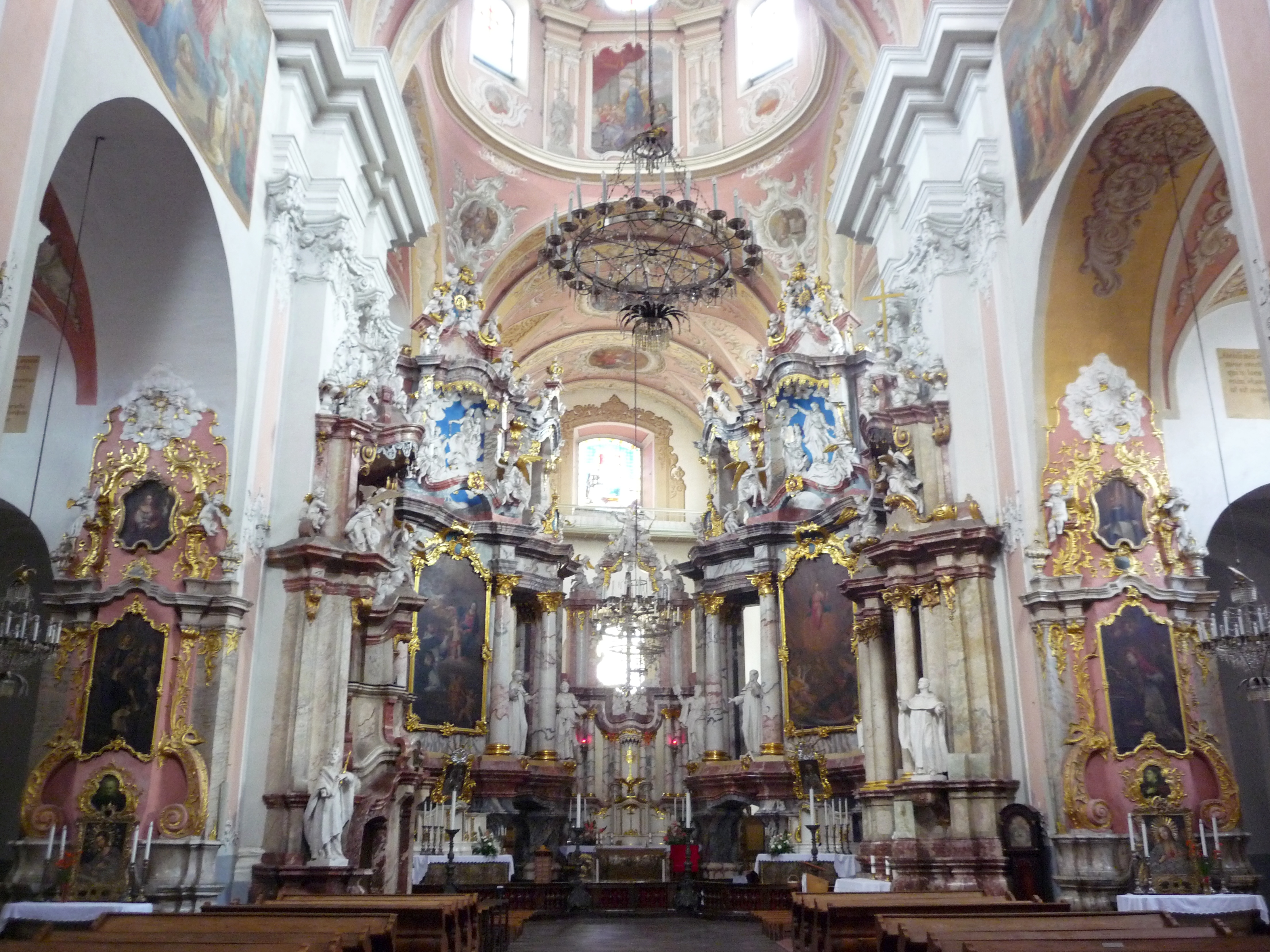 Interior of the Church of the Holy Spirit in Vilnius